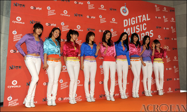 SNSD at Cyworld 31th Digital Music Awards